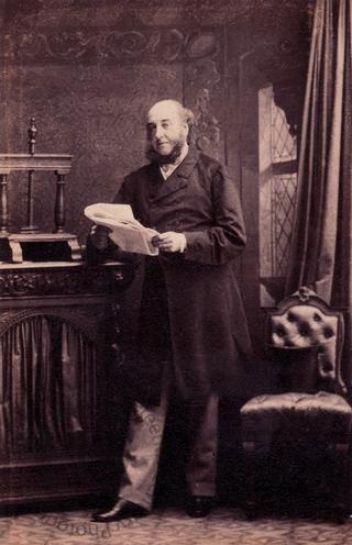 Portrait of William Orme Foster (1814–1899), English ironmaster and politician.